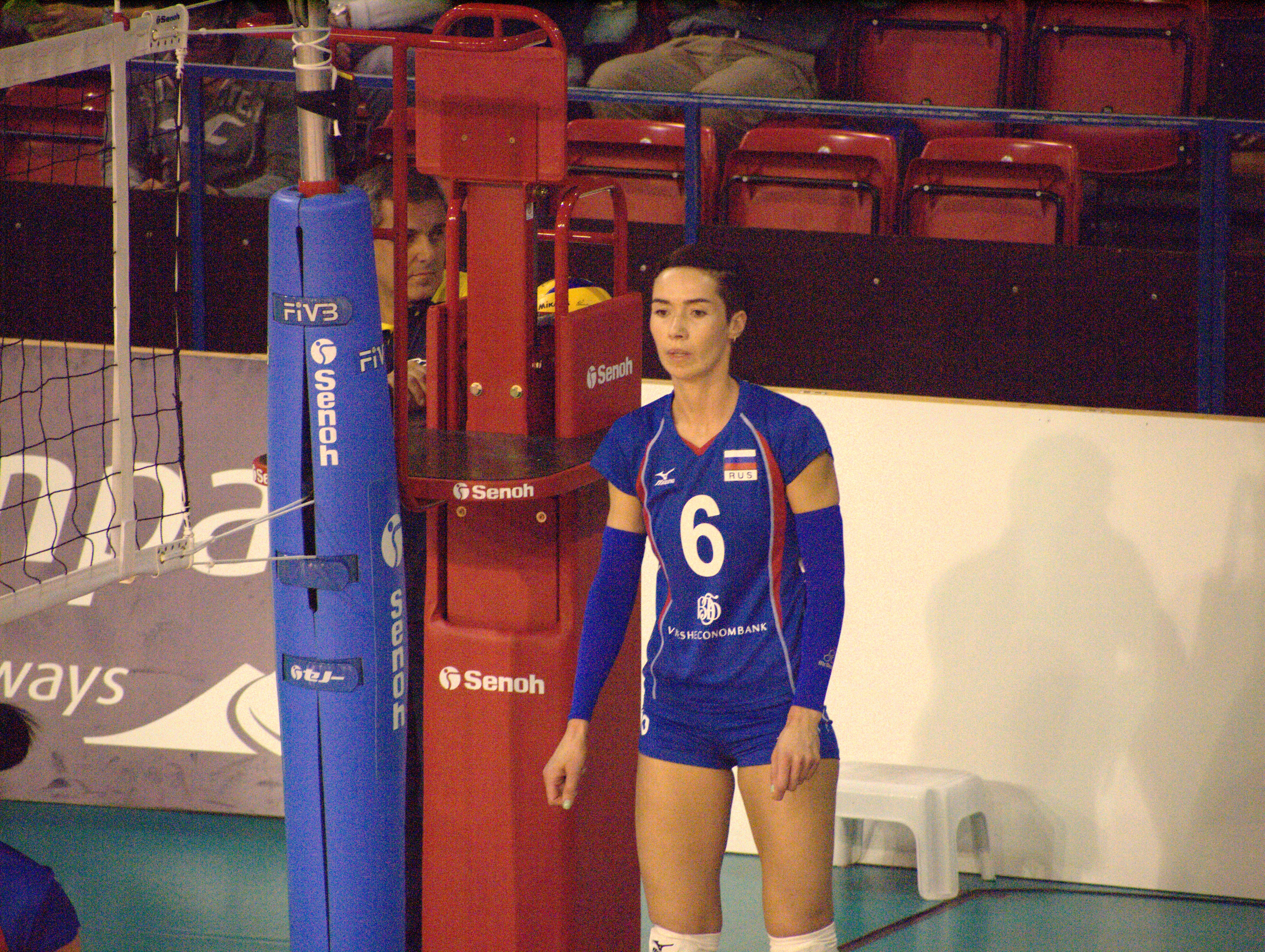 Volleymasters 2013, Montreux, Switzerland. Warmup before the finale between Russia and Bresil. 2nd of June 2013